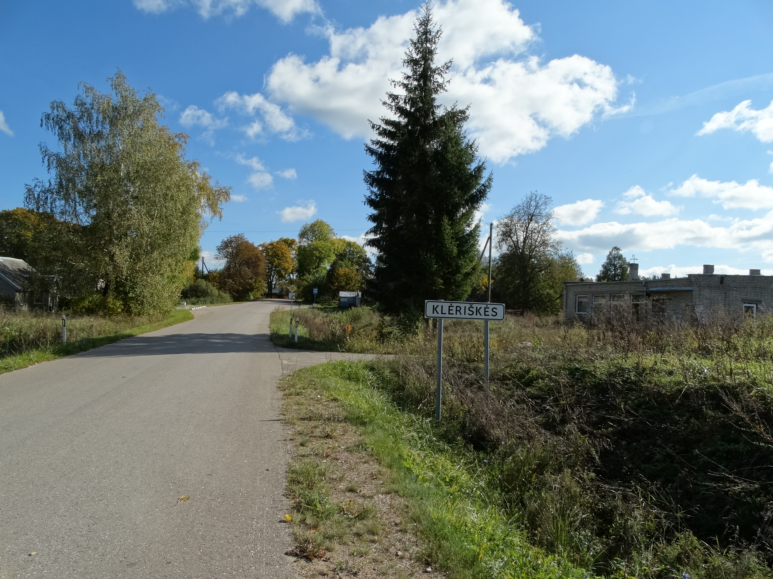 Klėriškės, Kaišiadorys district, Lithuania